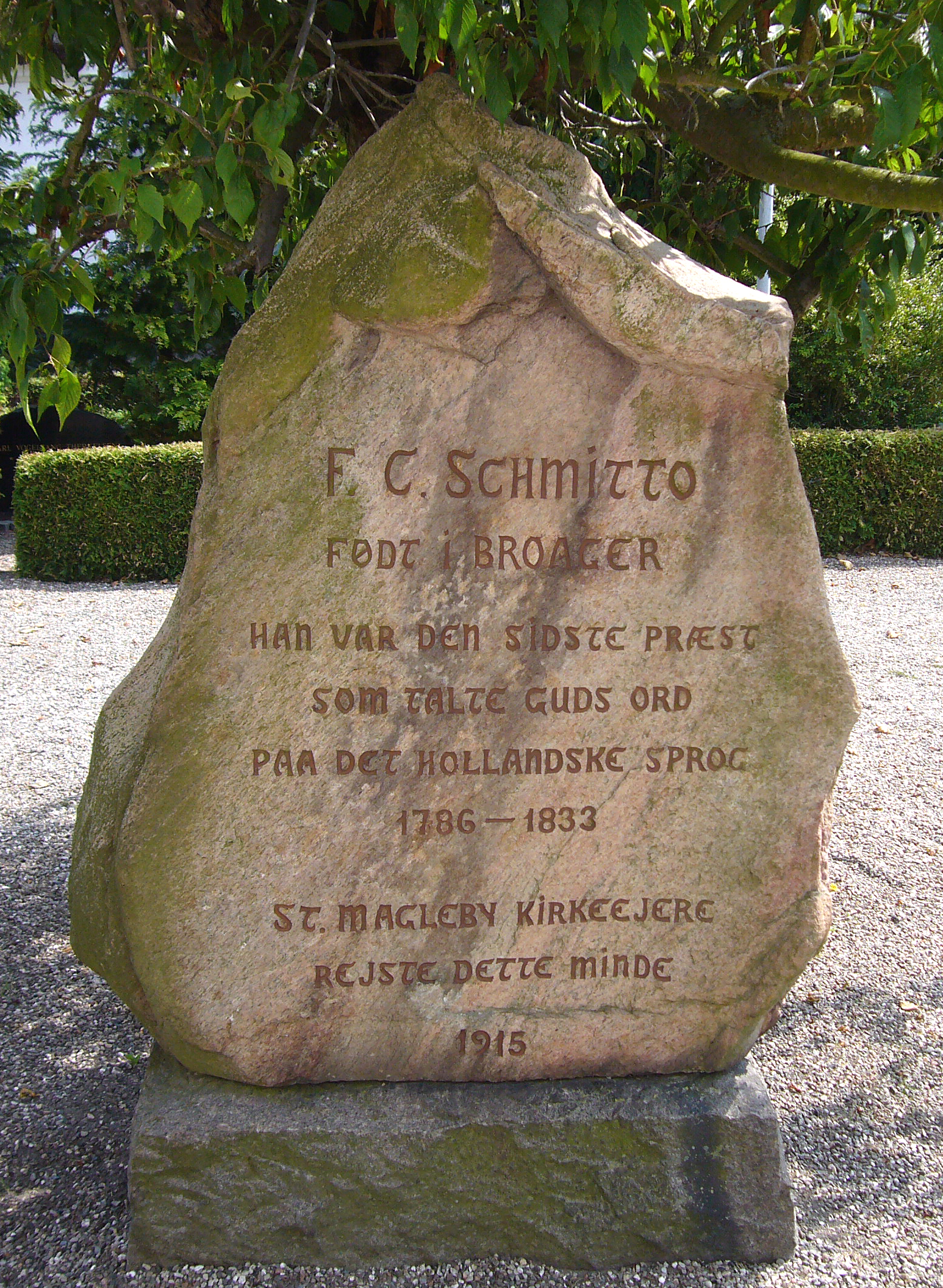 Store Magleby Kirke, Copenhagen, Denmark. Memorial for last Dutch speaking priest.